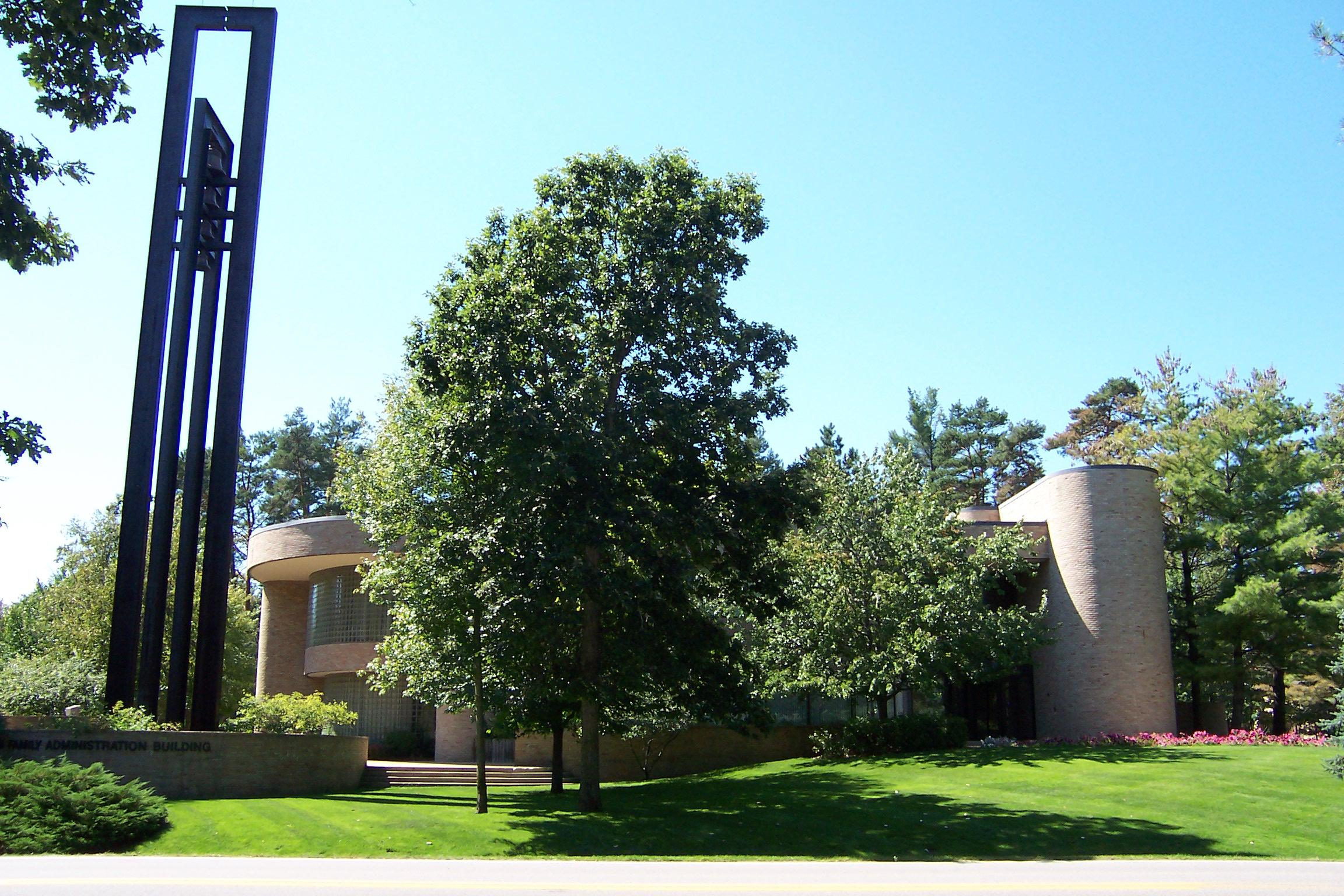 Midland's Church Family Administration building